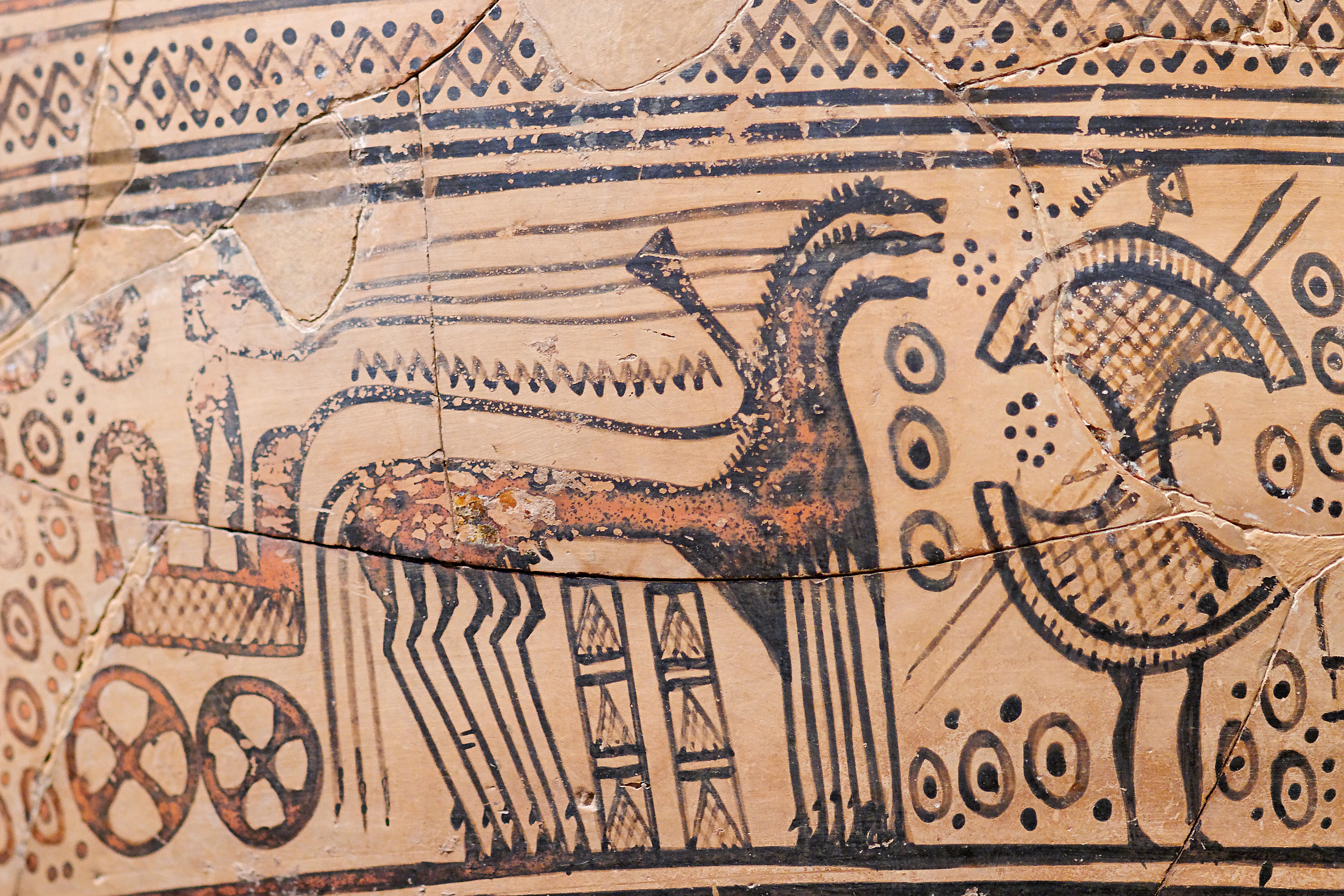 Chariot and a foot soldier, detail from the lower tier of a monumental Attic Geometric krater.